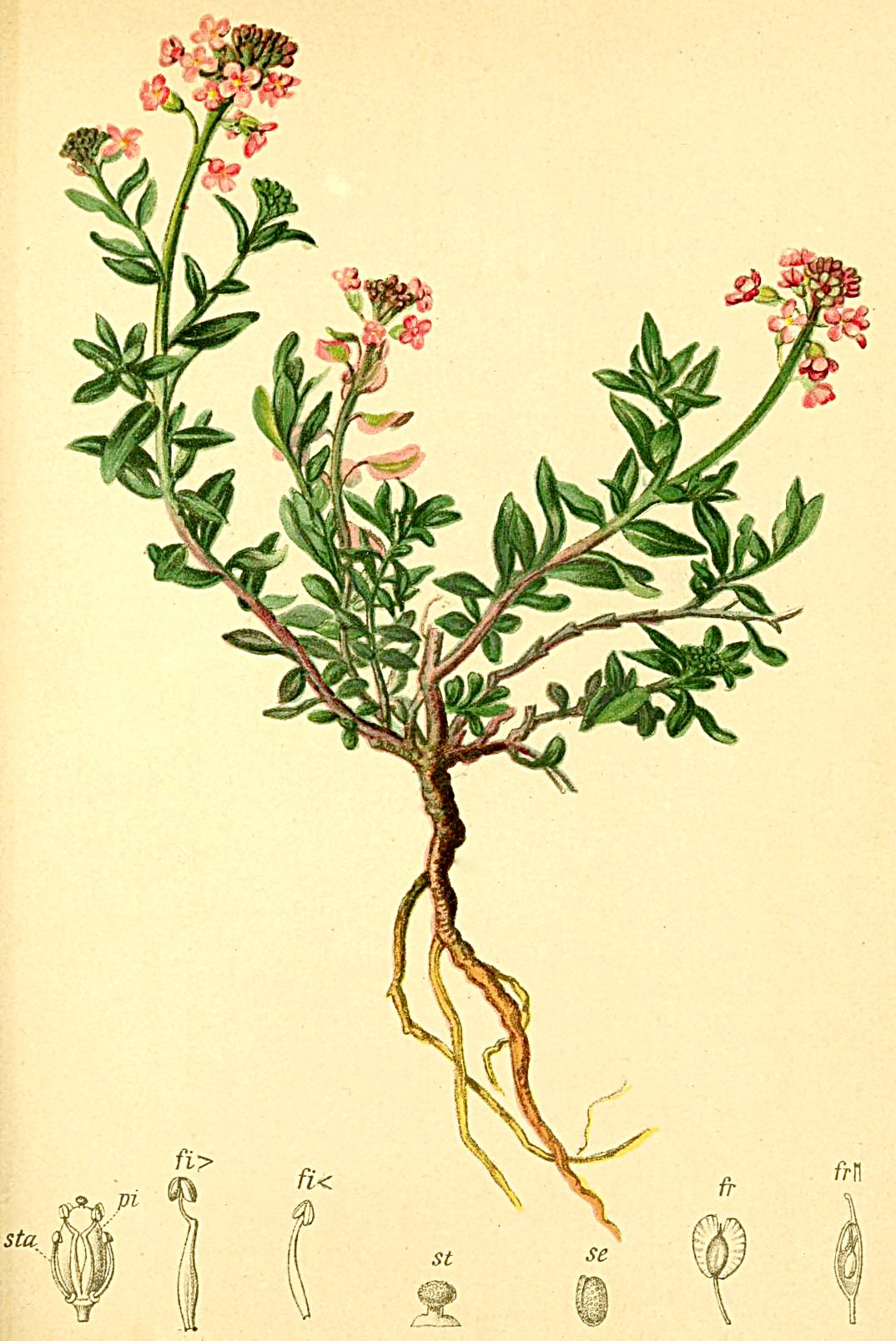 Aethionema saxatile